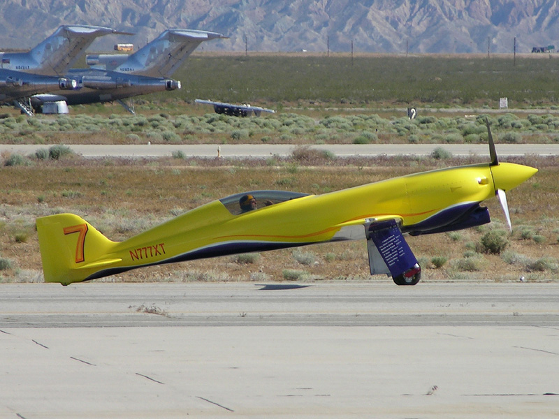 A Sharp Nemesis NXT kit racing plane built by Dan Wright taxis at Mojave